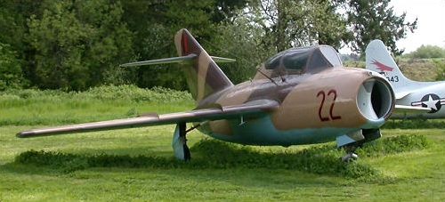 MiG-15UTI trainer.